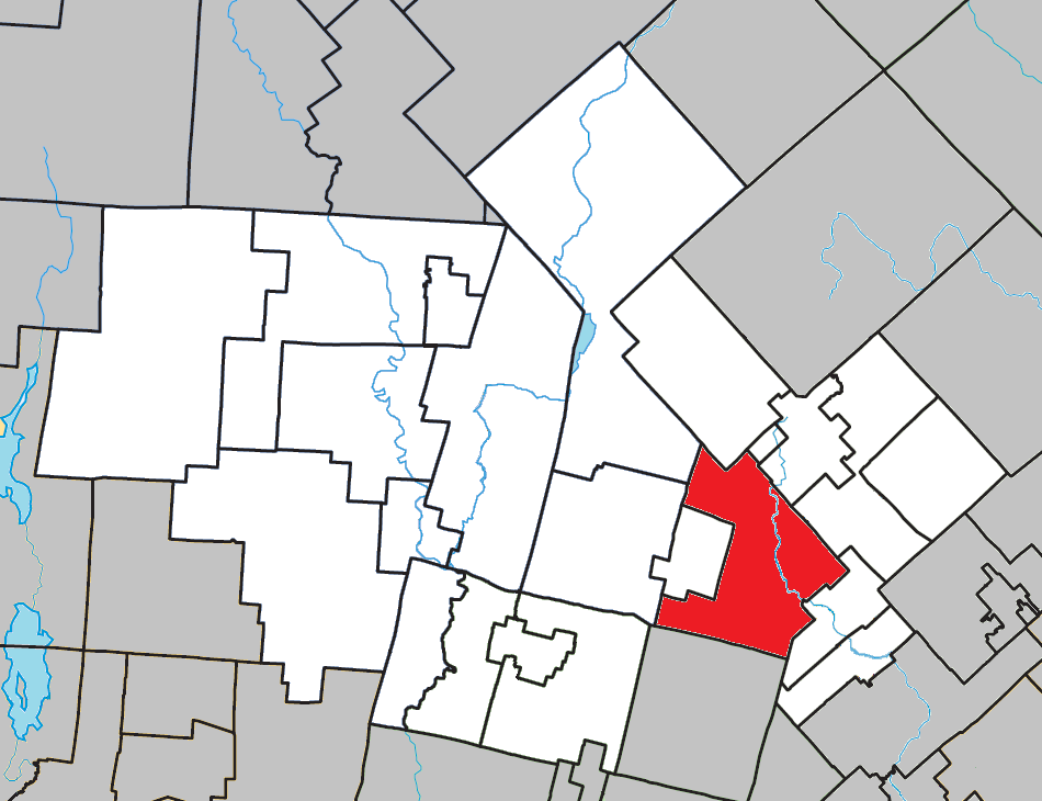 Location of Sainte-Agathe-des-Monts, Quebec within Les Laurentides Regional County Municipality.